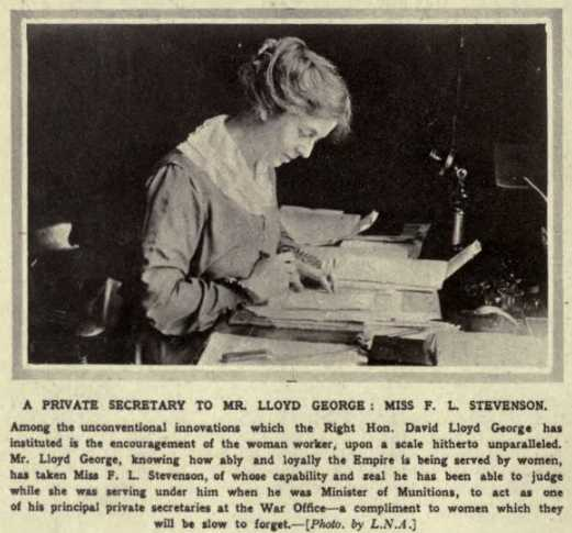 Press photograph of Frances Stevenson at work in 1916